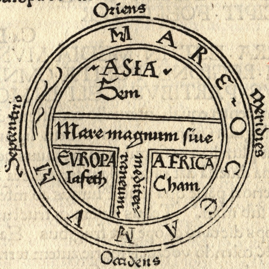 T and O style mappa mundi (map of the known world) from the first printed version of Isidorus' Etymologiae (Kraus 13). The book was written in 623 and first printed in 1472 at Augsburg by one Günther Zainer (Guntherus Ziner), Isidor's sketch thus becoming the oldest printed map of the occident. Note: T-O-maps are typically displayed "East-up", show Jerusalem at the center and the paradise at the outmost East, balanced by the pillars of Hercules at the outmost West.